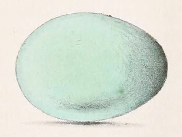 « Cichlherminia fuscata » = Margarops fuscatus (Pearly-eyed Thrasher) - egg